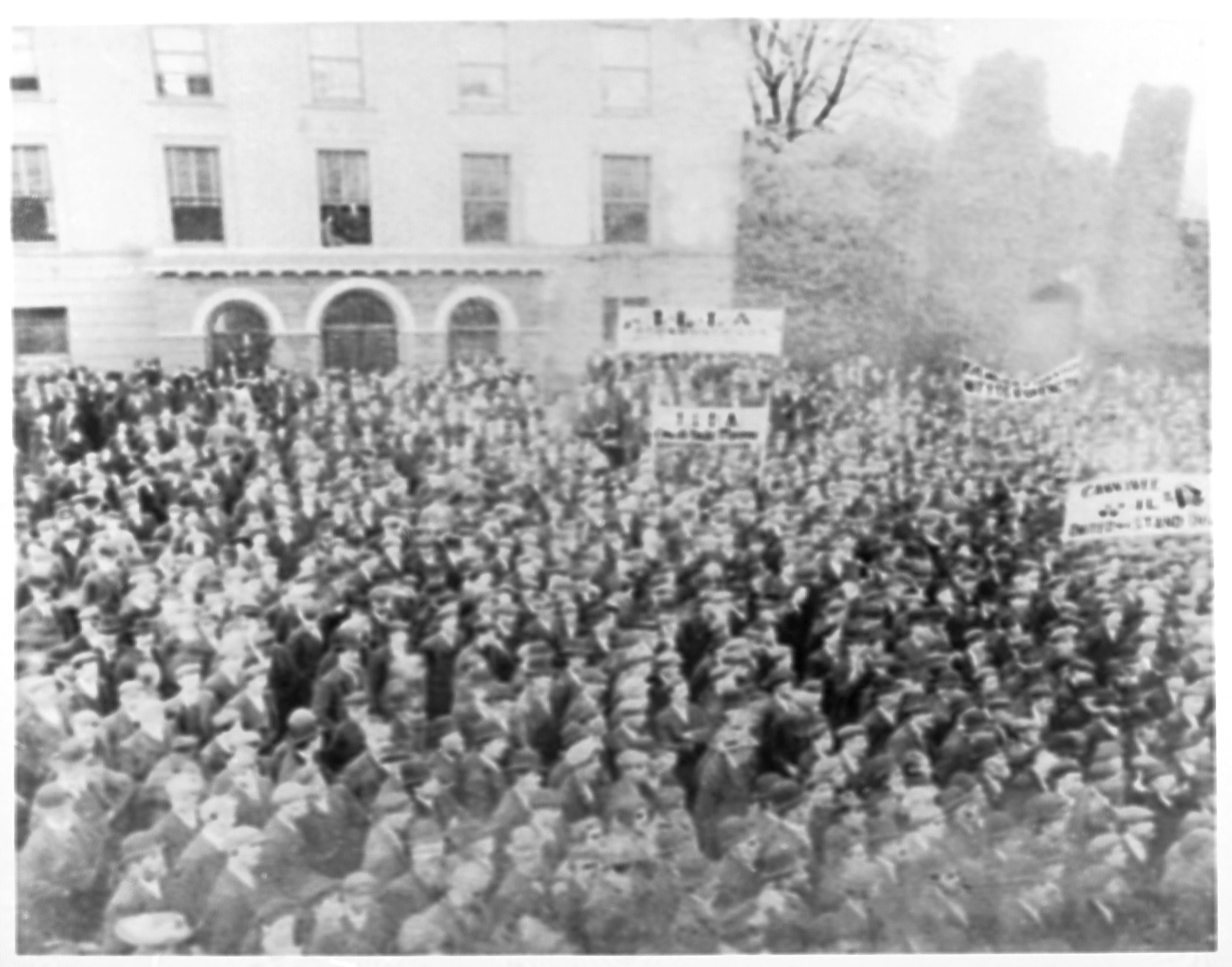 Image shows a mass protest rally around 1894 of small tenant farmers and agrarian labourers demanding their rights in the Market Square of Macroom, County Cork, Ireland, while displaying Irish Land and Labour Association ILLA banners.